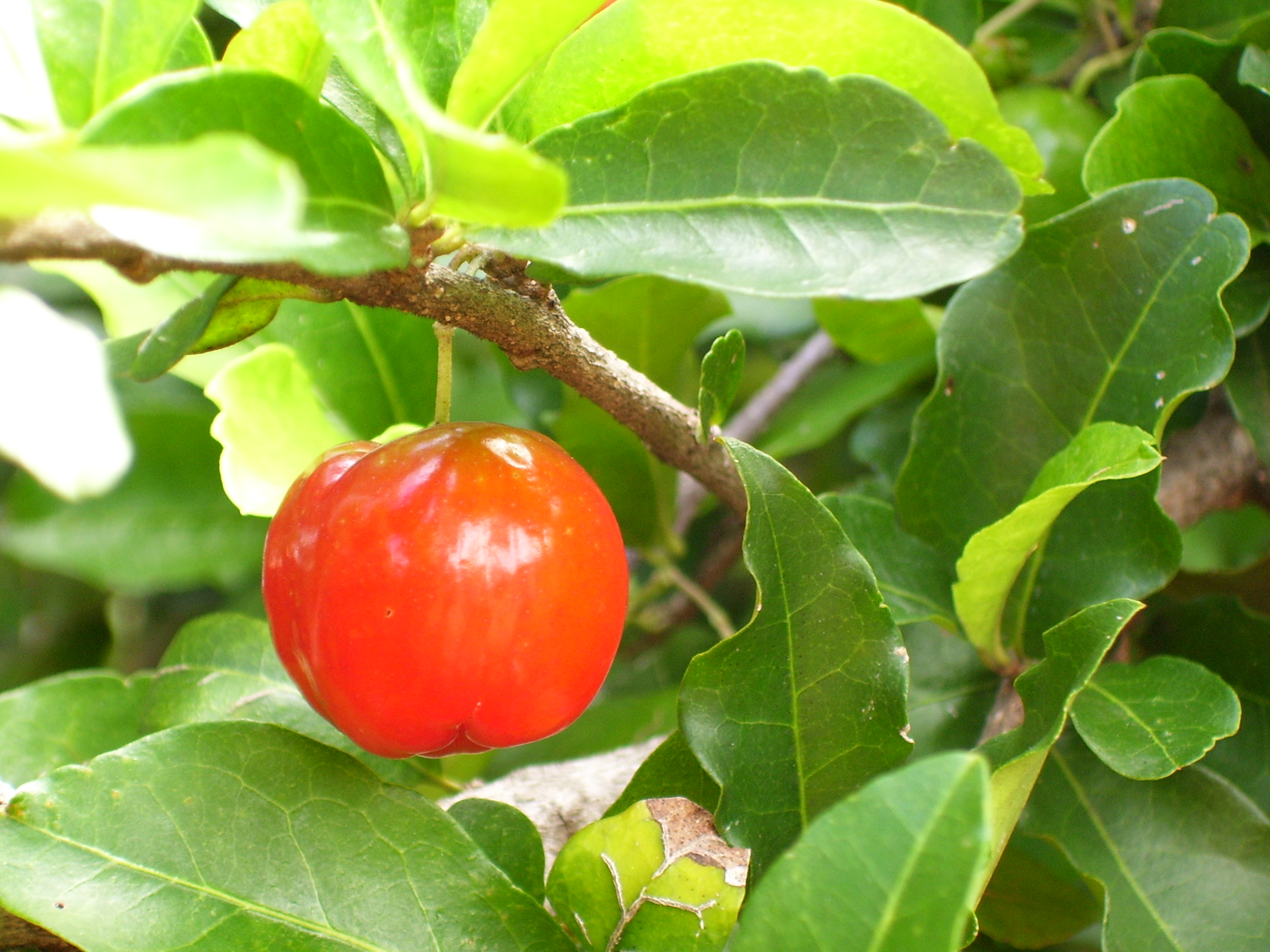 Acerola (Malpighia glabra)